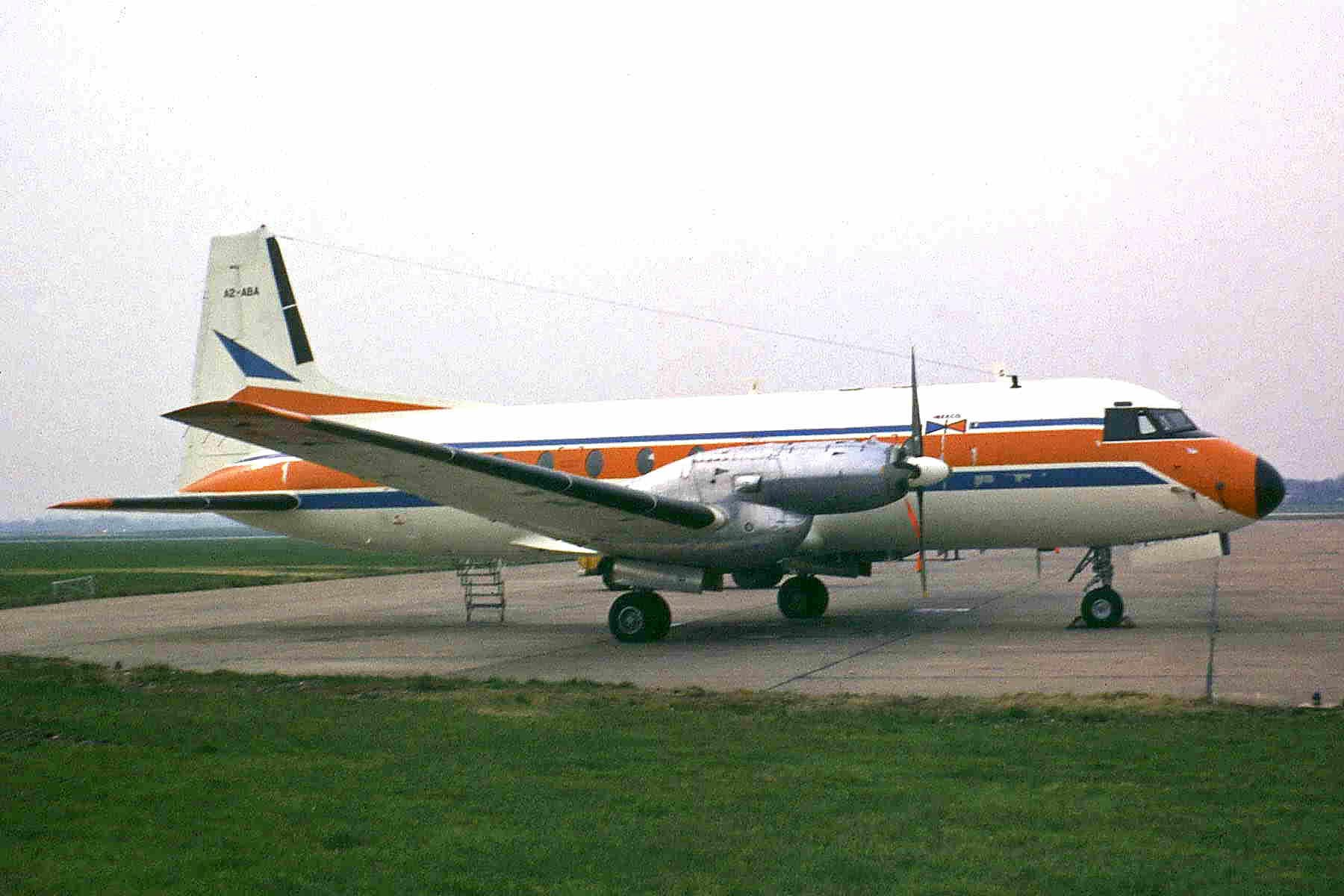 On delivery from Woodford to Botswana